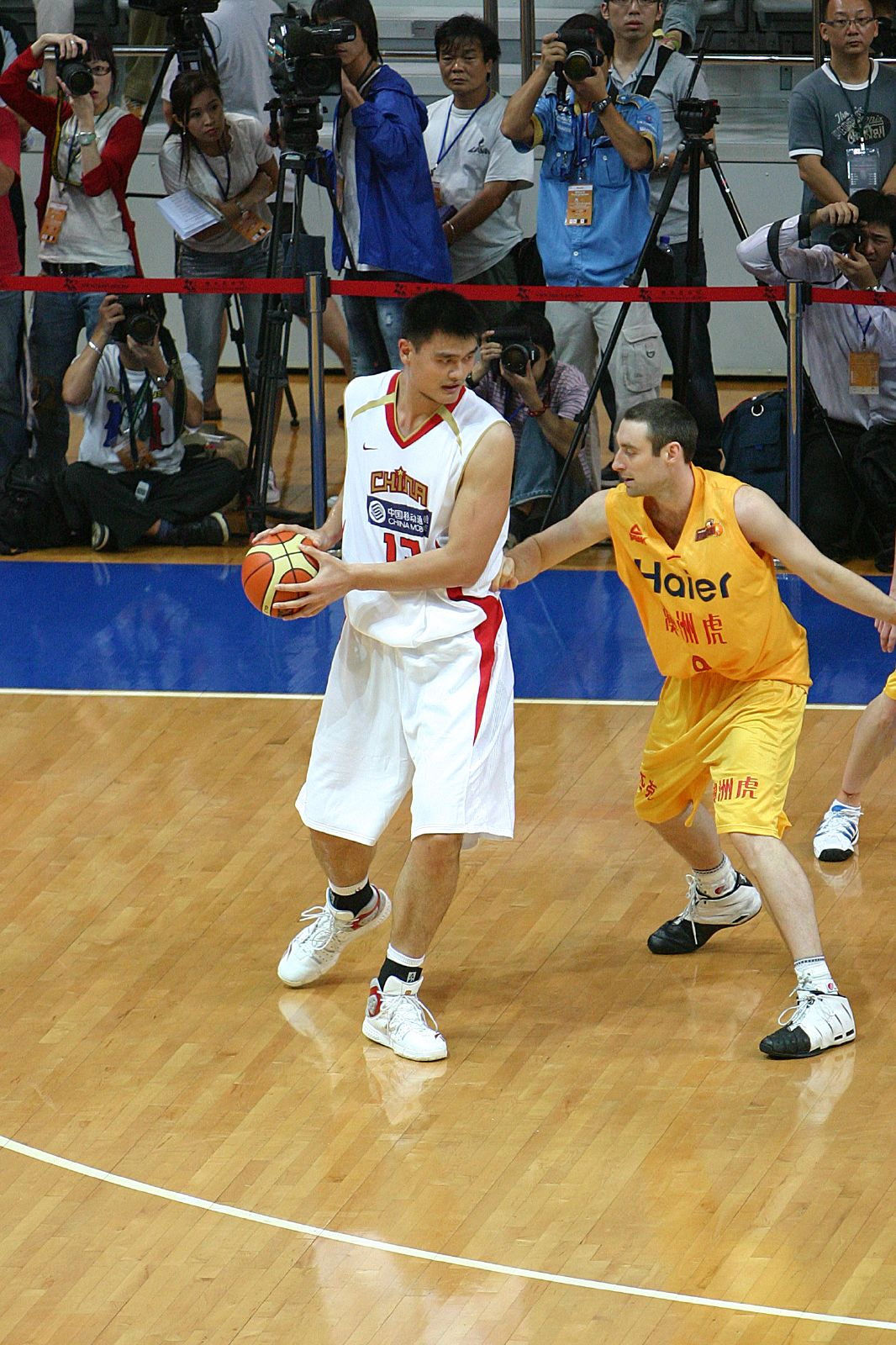 Yao Ming, playing for the Chinese national basketball team